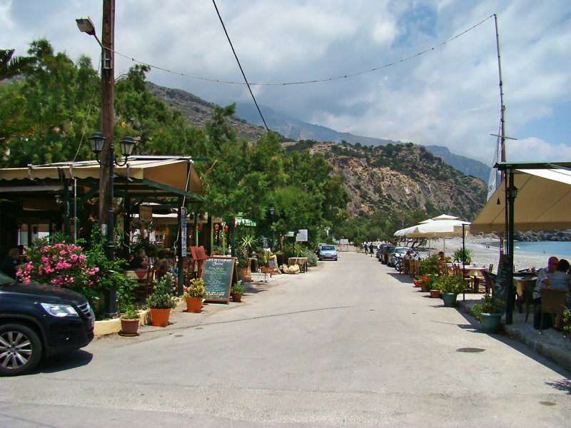 Sougia, Crete, Greece.